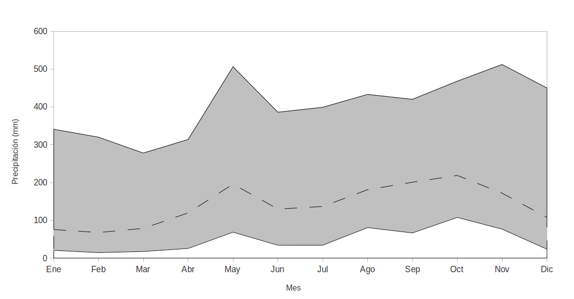 Graph of the range and average (dotted line) of precipitation in Puerto Rico